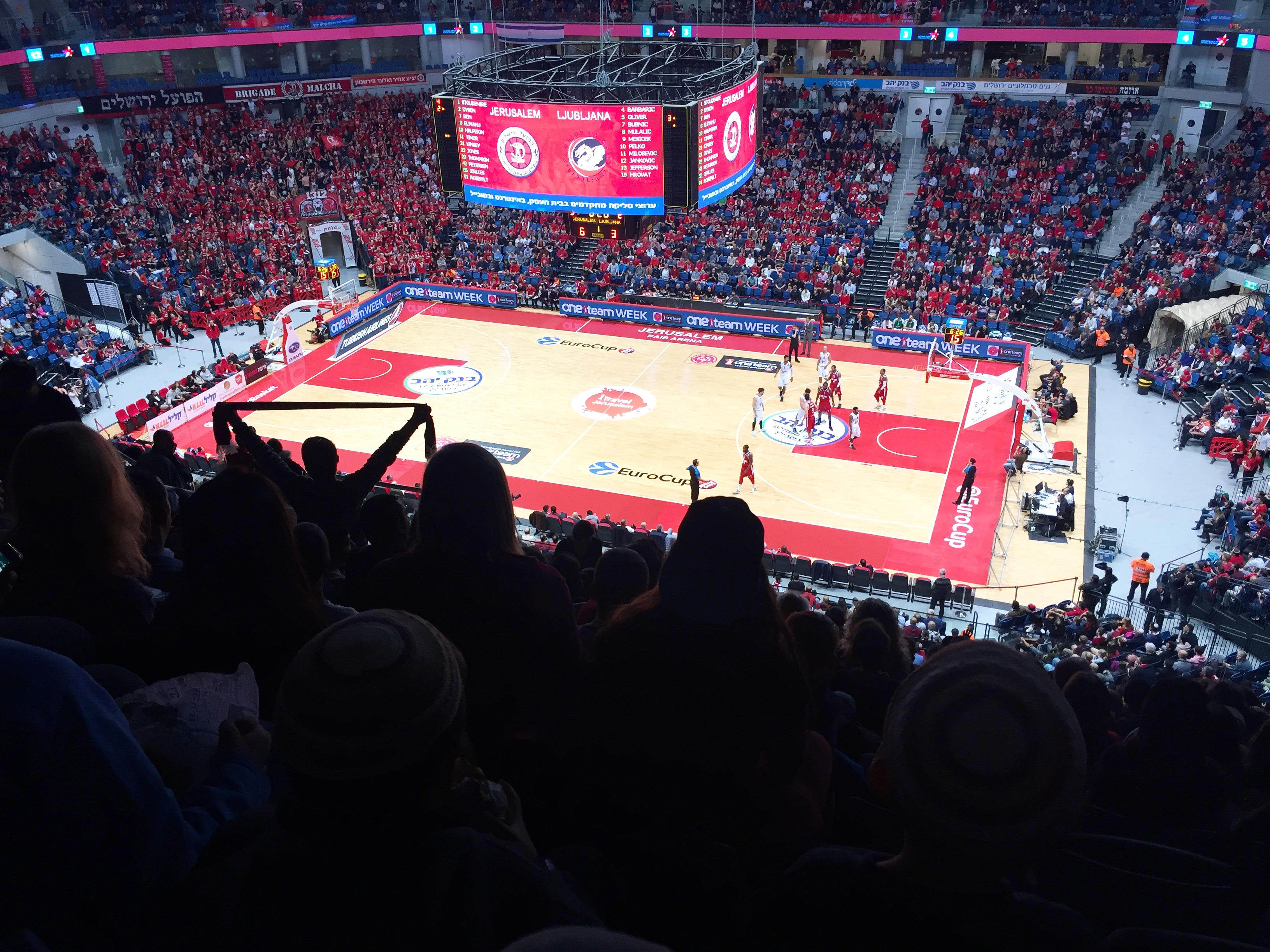 Eurocup Basketball game in Jerusalem Arena with local team Hapoel Jerusalem.